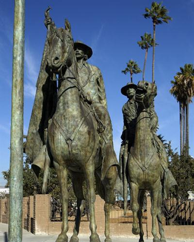 Thomas Fallon monument